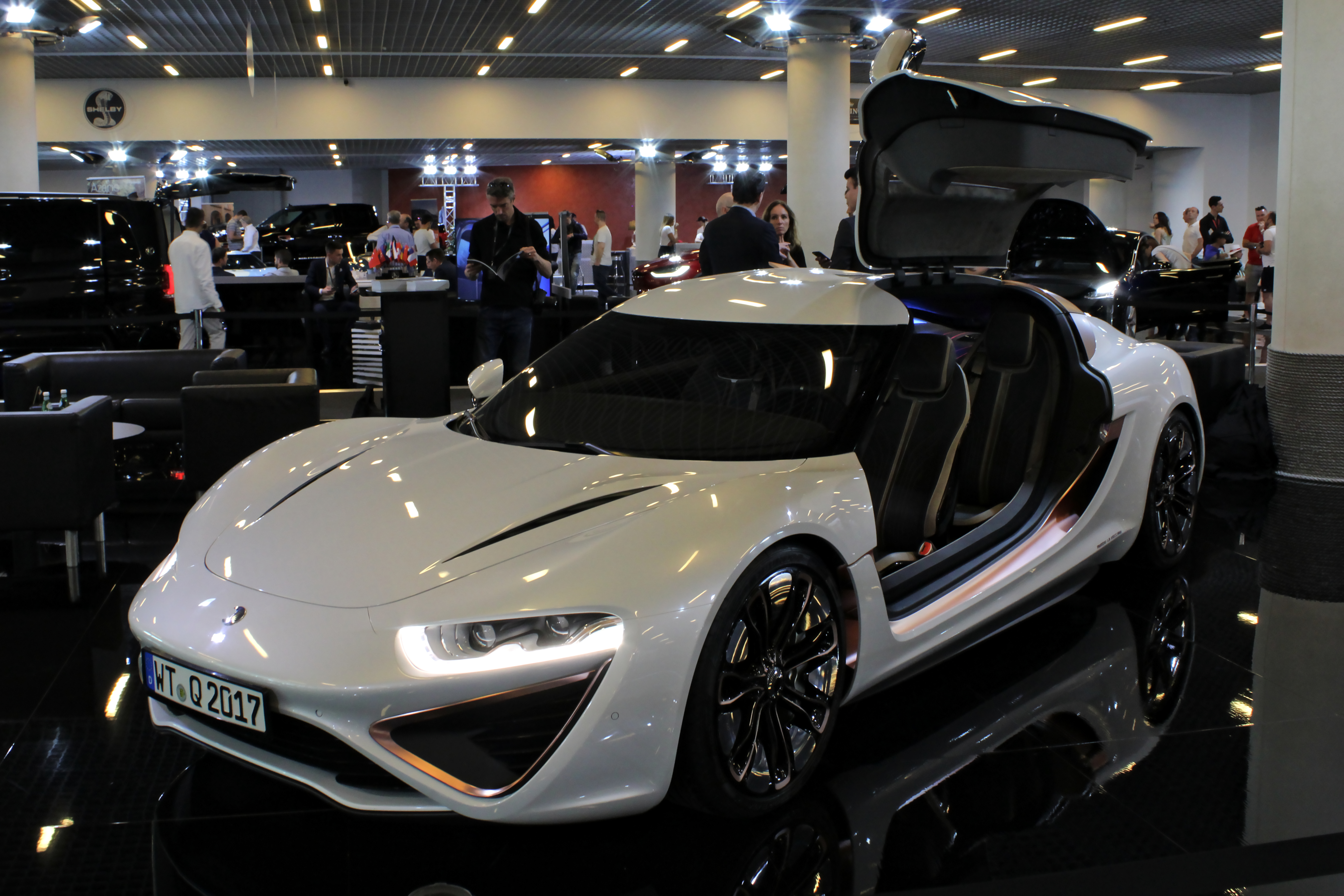 NanoFLOWCELL Quant e-Sportlimousine at Top Marques 2019